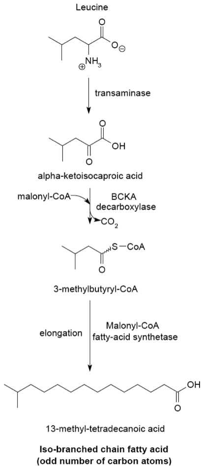 Synthesis of branched chain fatty acids using leucine as a primer.